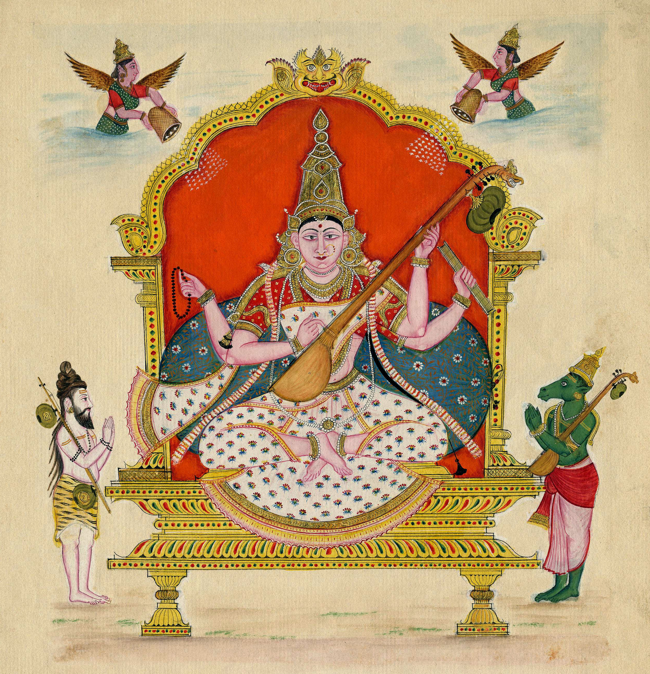 "The goddess Sarasvati. She is set off by an orange background and sits on a throne resting her shoulders on a bolster. In her upper right hand she carries a mala, in her upper left hand and lower right hand she holds the vina, and in her lower left hand she has a book. Of white complexion she is dressed in a white sari a red blouse and wears all the usual ornaments. To her right, resting the vina on his shoulder is the divine musician, Narada, clad in a tiger skin with his matted tresses partly gathered at the top of his head and partly flowing loose on his shoulders. Opposite Narada, to the left of Sarasvati is the other divine musician, the horse-headed Tumburu. Dressed in dhoti and angavastra, he rests the tamboura on his shoulder."